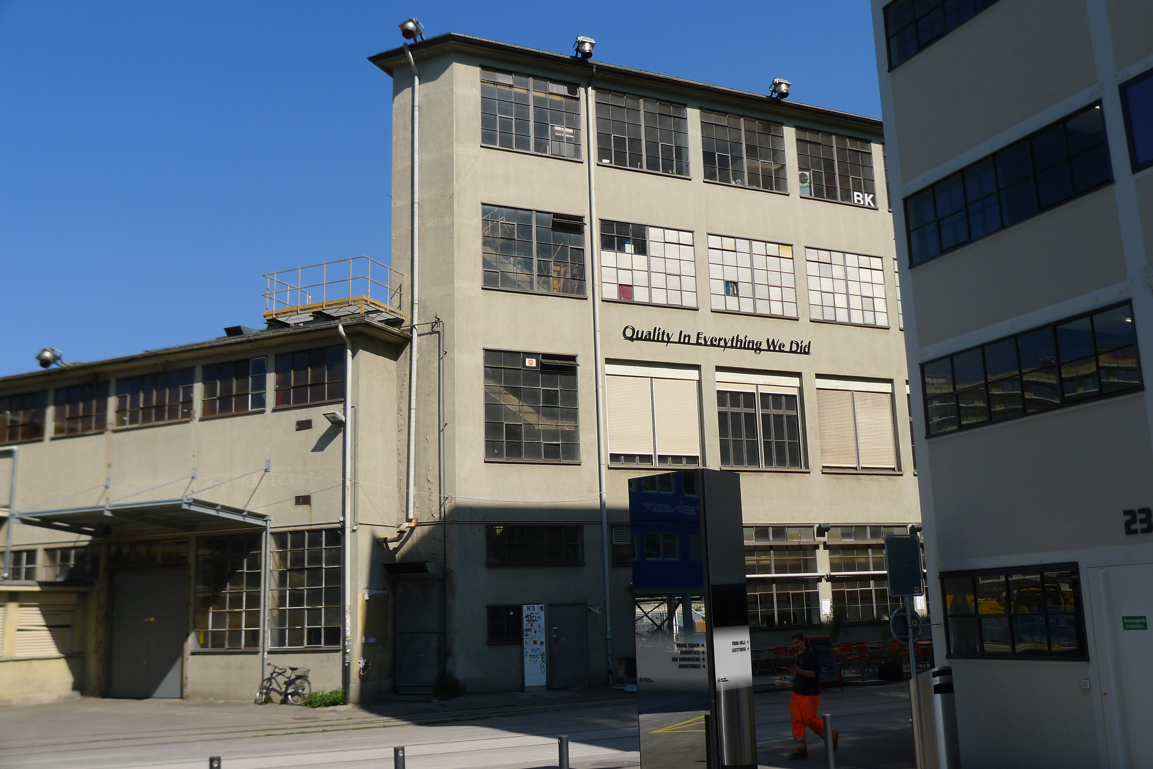 Art Work by Swiss Artist Jöelle Flumet, playing with the Ernst & Young Slogan Quality In Everything We Do. Photo taken two hours before the work had to disappear due to pressure by Ernst & Young Zürich.